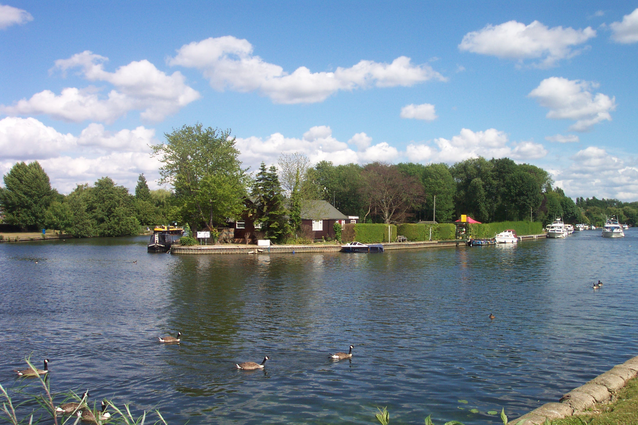 The upstream tip of Fry's Island, in the River Thames in the English town of Reading. For more information see the Wikipedia article Fry's Island'.